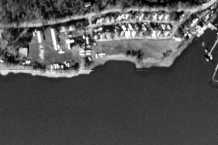 Aerial image of Peekskill Seaplane Base (FAA: 7N2) in Verplanck, New York, United States.